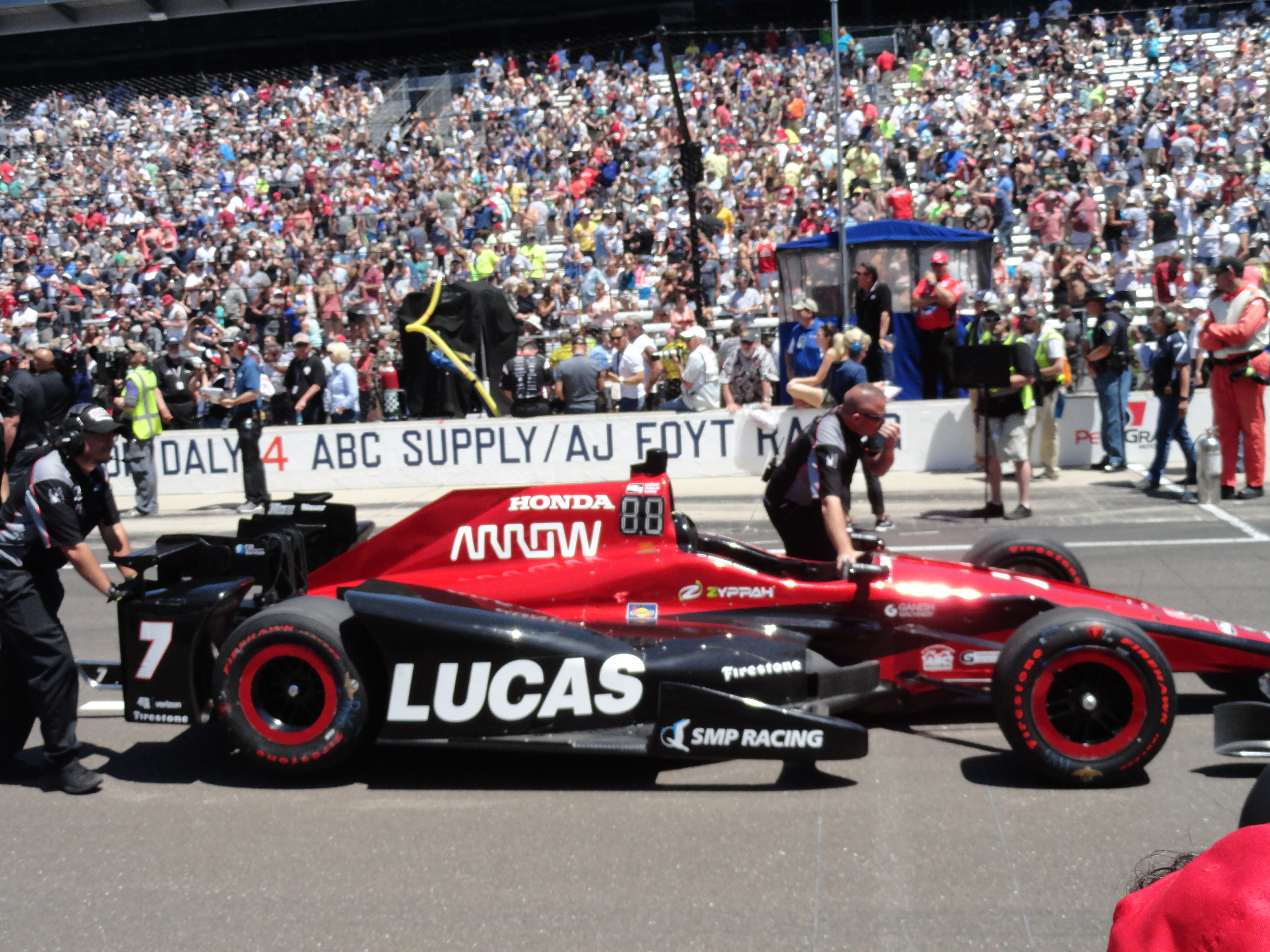 2017 Indianapolis 500 Carb Day Pit Stop Challenge